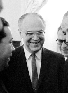 Anatoly Fyodorovich Dobrynin (Анатолий Фёдорович Добрынин), Soviet Ambassador to the United States